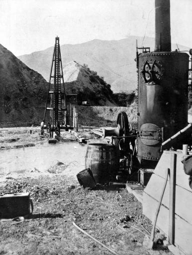 Driving piles for the Cass Bridge. The railway bridge being constructed over the Cass River on the Midland Railway Line not far from Cass.